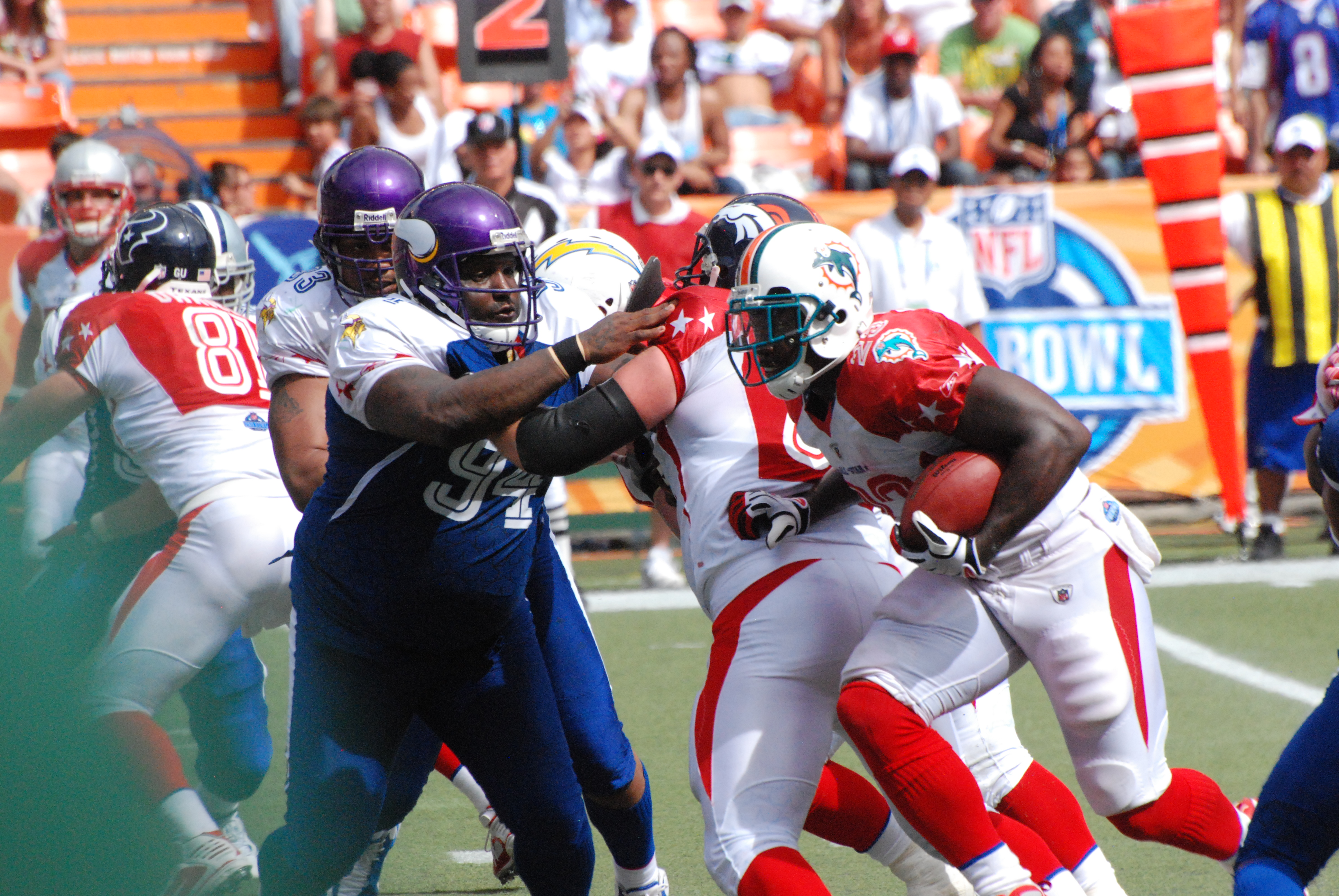 en:2009 Pro Bowl: Defensive tackle Pat Williams (NFC) goes after AFC running back Ronnie Brown.